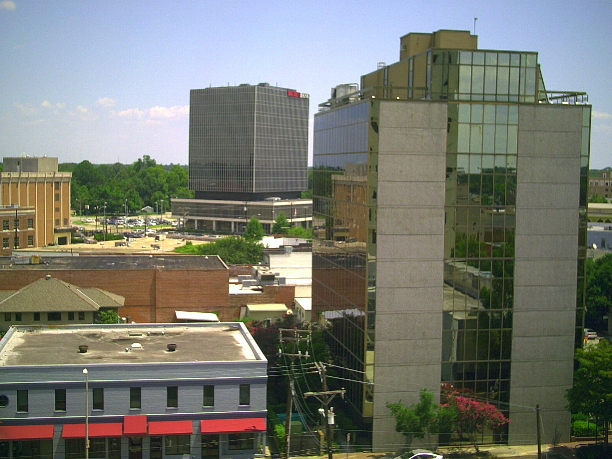 Lafayette, LA downtown